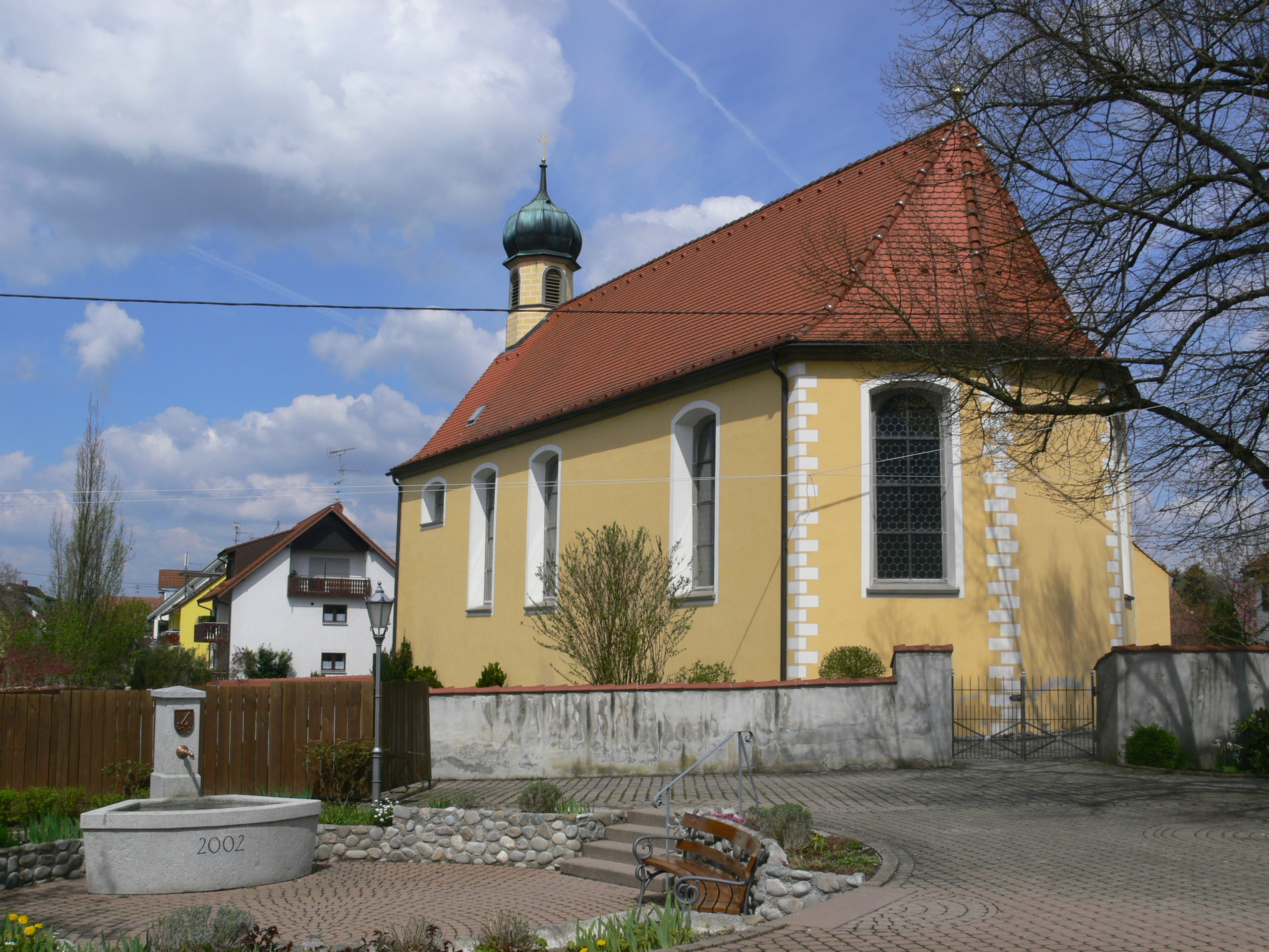 Stetten, Bodenseekreis: Chapel St. Peter and Paul in the center of the village